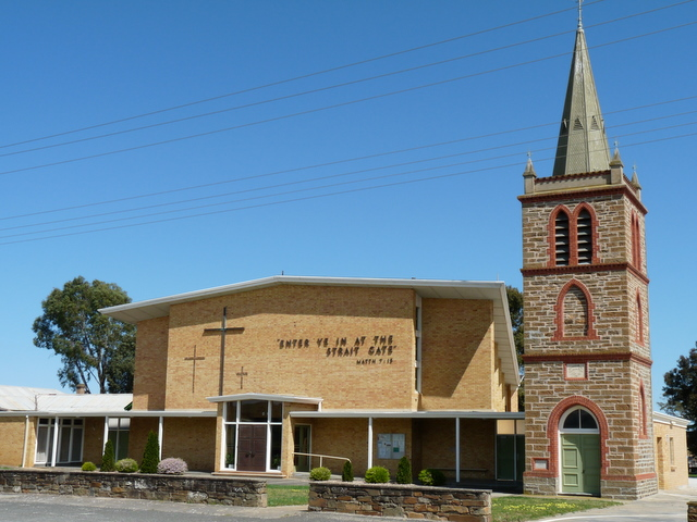 The Straight Gate Lutheran church in Light Pass, Baraossa Valley